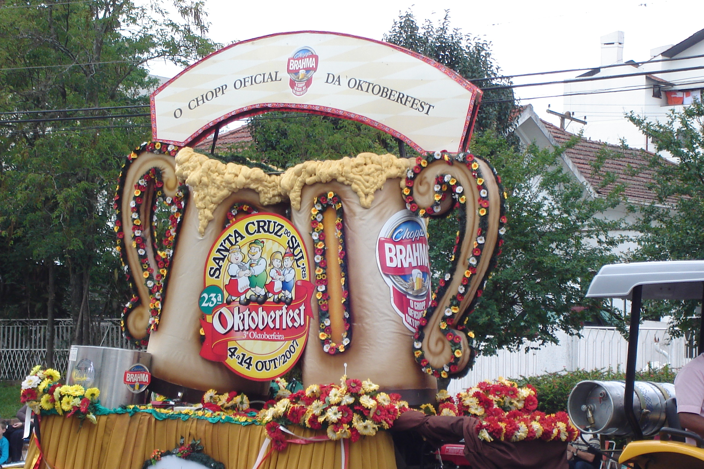 A decorated car with beer at Oktoberfest in Santa Cruz do Sul, Brazil.